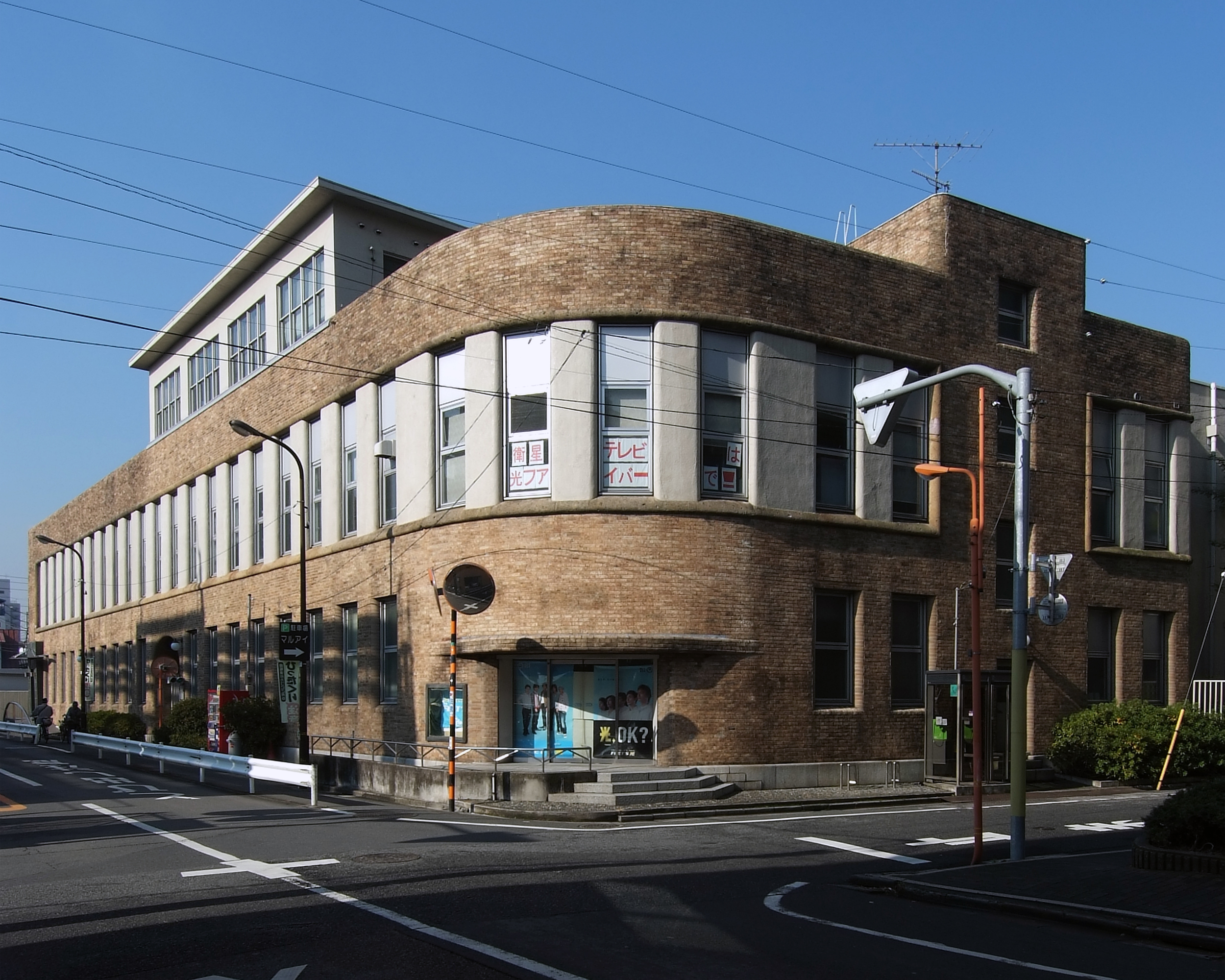 NTT Senju Building, at Kita-Senju Tokyo Japan, design by Mamoru Yamada in 1929.